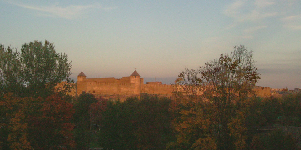 Fortress of Ivangorod, Narva 2006